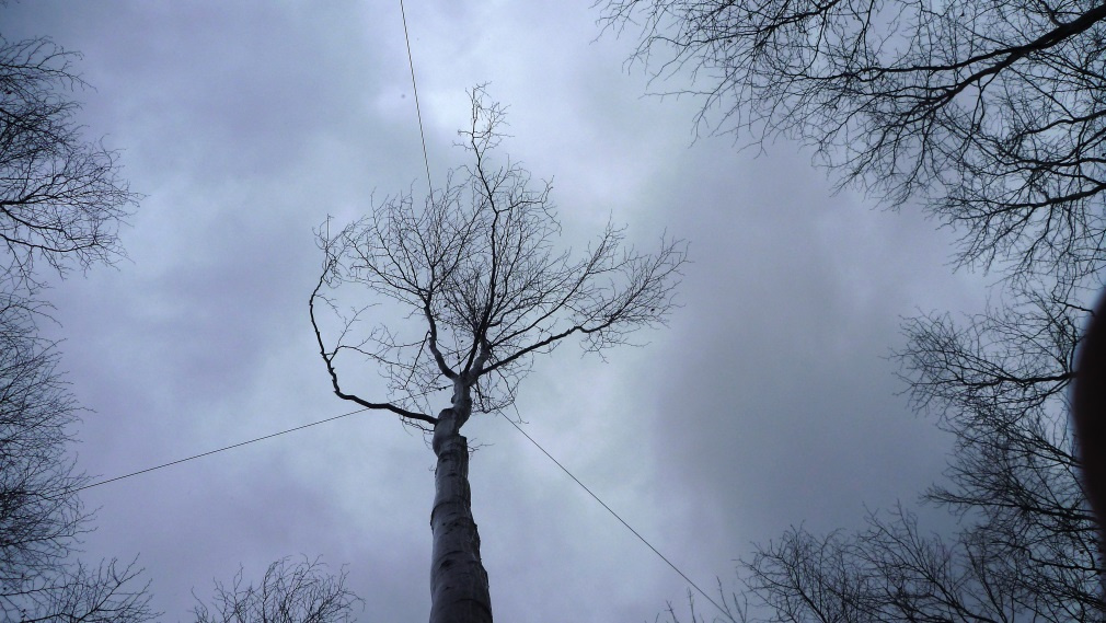 3 steel cables firmly hold the tree at it crown base and reduce its perception of the wind's mechanical effect.